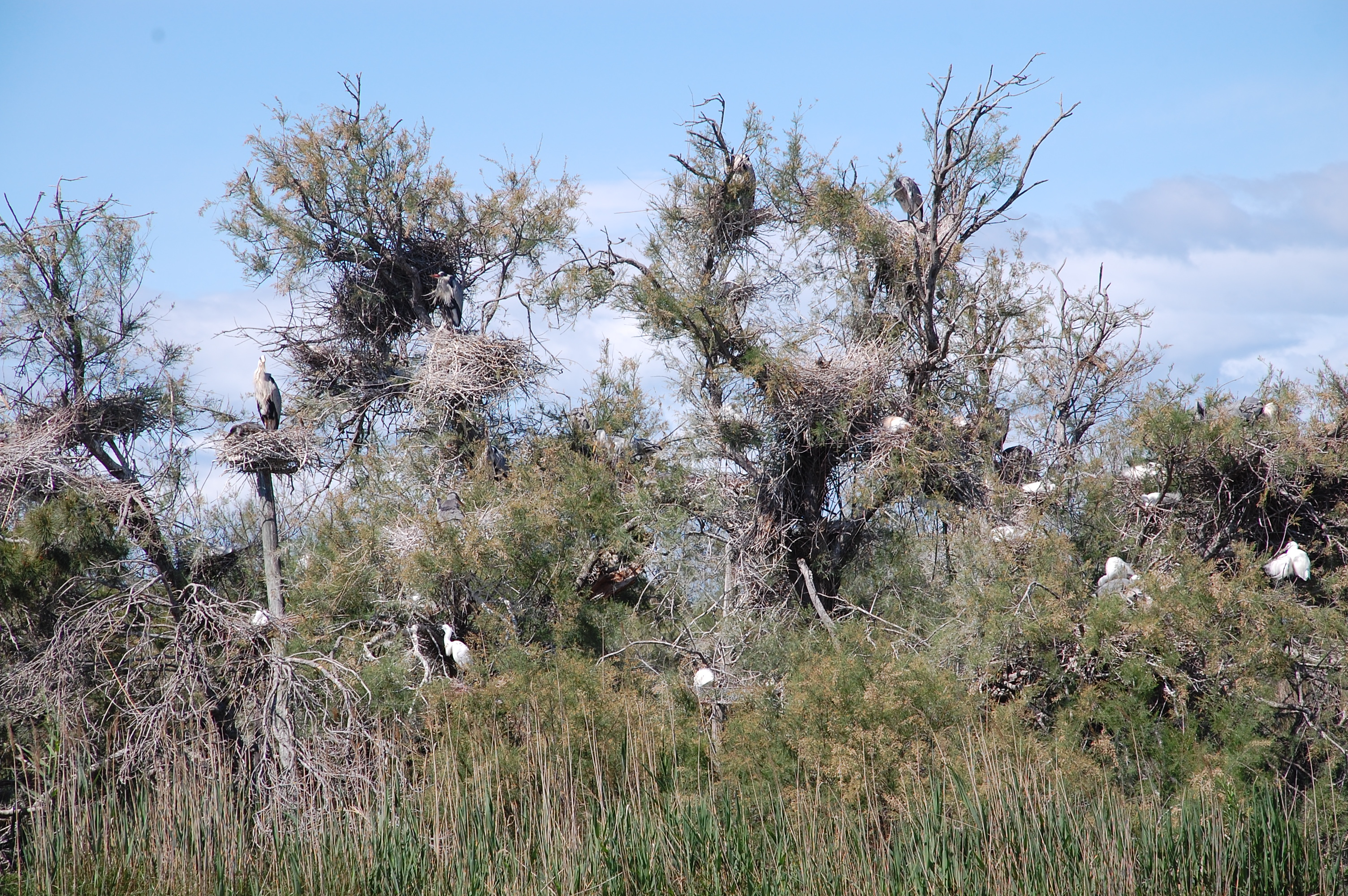 Ardeidae nests in Camargue Grey herons and Little egrets.